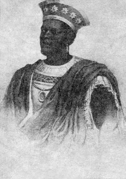 Ira Aldridge